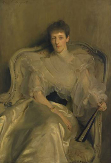 Jean, Wife of Colonel Ian Hamilton John Singer Sargent -- American painter 1896 Tate Gallery, London Oil on canvas 130.2 x 92.1 cm Presented by Gen. Sir Ian Hamilton 1940; N05247 Jpg Tate Gallery